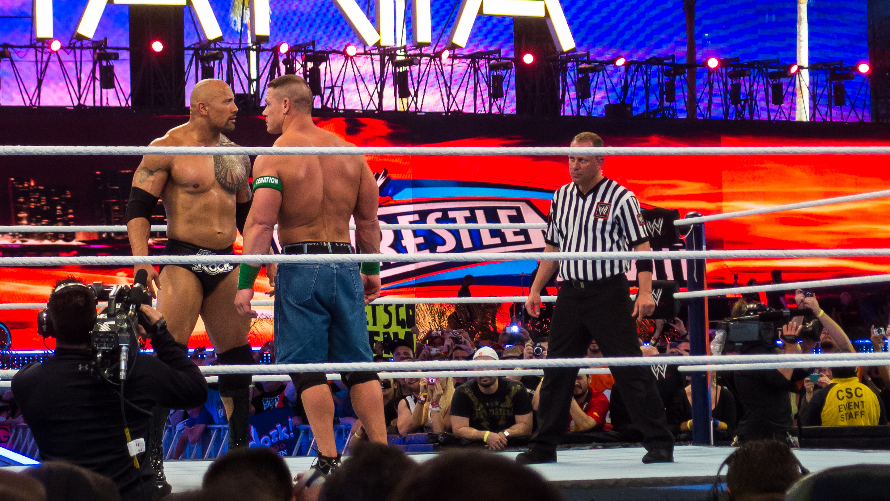 John Cena v The Rock at Wrestlemania XXVIII